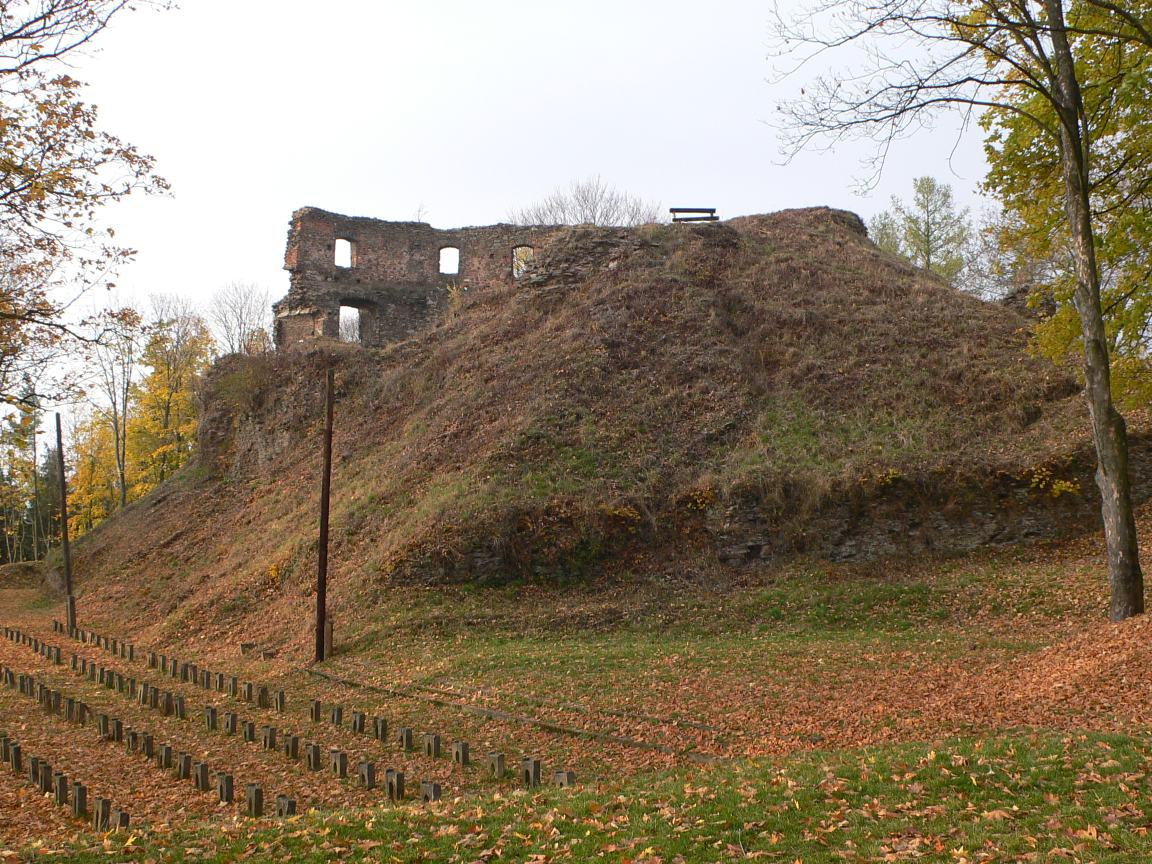 Ruin of Cimburk castle in Svitavy district near the town of Městečko Trnávka.